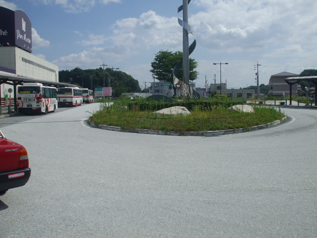 Nishikani-station Bus Stop